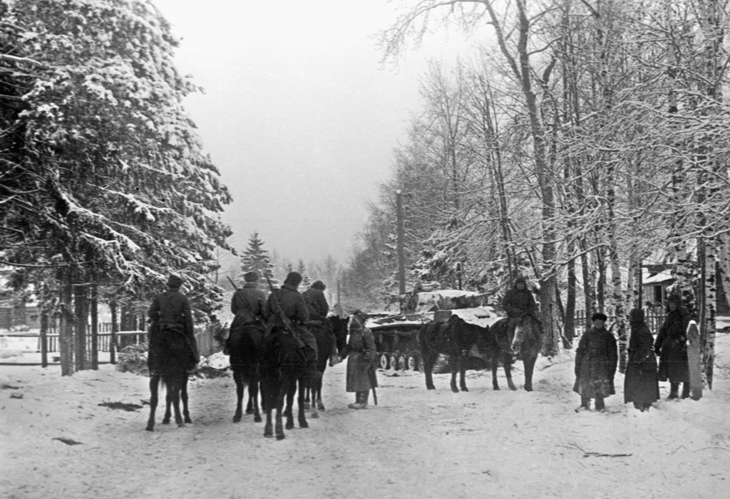 “Horse patrol in a street of Kryukovo village in the Moscow suburbs”. Horse patrol in a street of Kryukovo village in the Moscow suburbs.